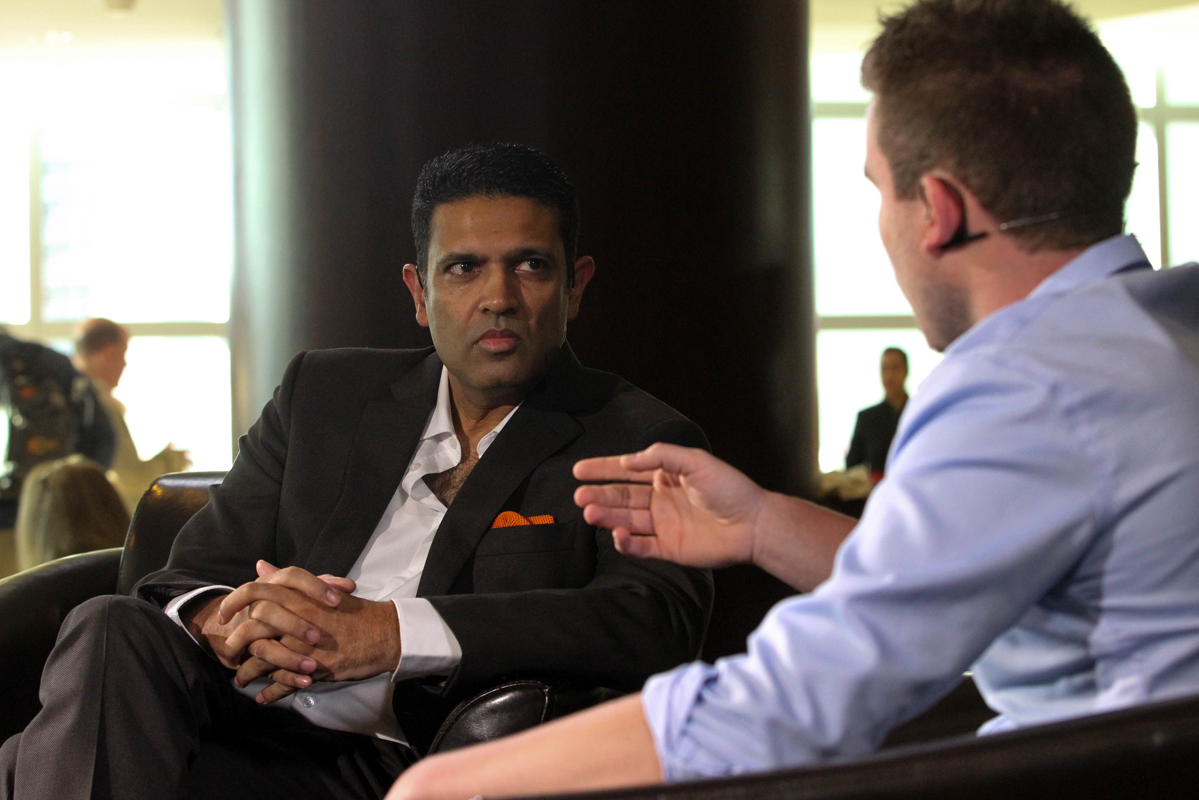 FEBRUARY 27, 2019, MIAMI, FLORIDA; Hari Sreenivasan, left, from Detroit Public Television, interviews Loïc Giraut, Short Edition, during the Knight Media Forum 2019 in Miami. (Photo by Patrick Farrell)